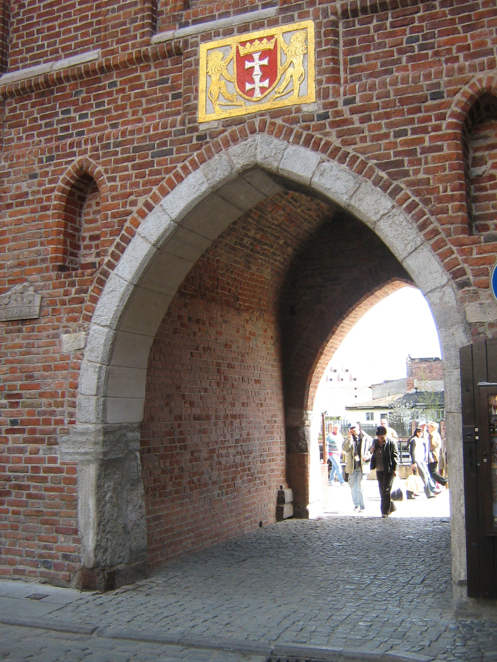 Mariacka Gate in the Main Town of Gdańsk